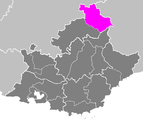 Maps of arrondissements and cantons of France: Arrondissement de Briançon.PNG